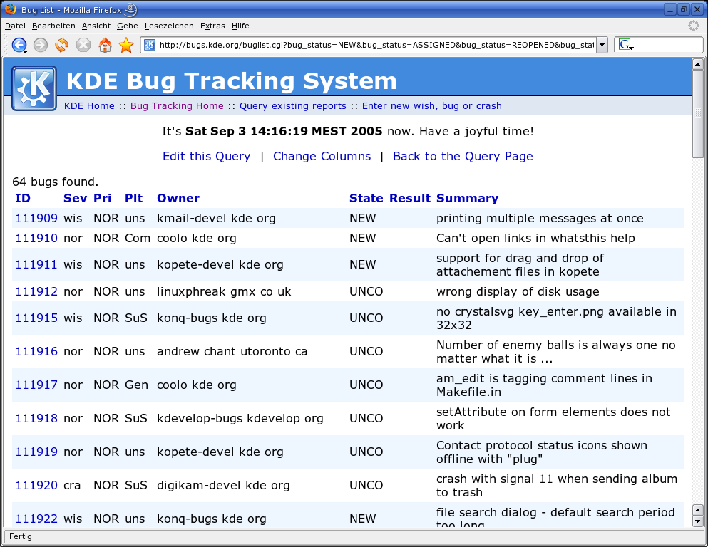 Firefox 1.0.6 runnning under KDE 3.4.2 (German) showing a typical query in a Bugzilla installation on